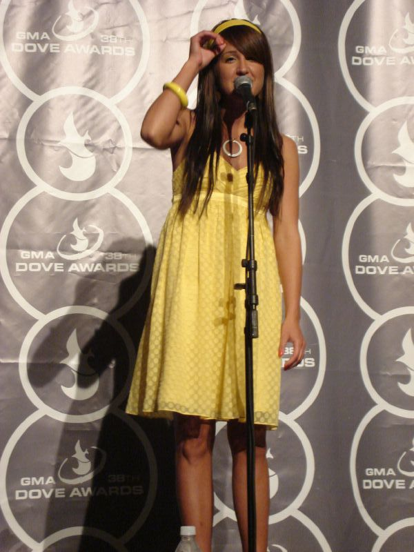 American singer Britt Nicole at the Dove Awards of 2008.